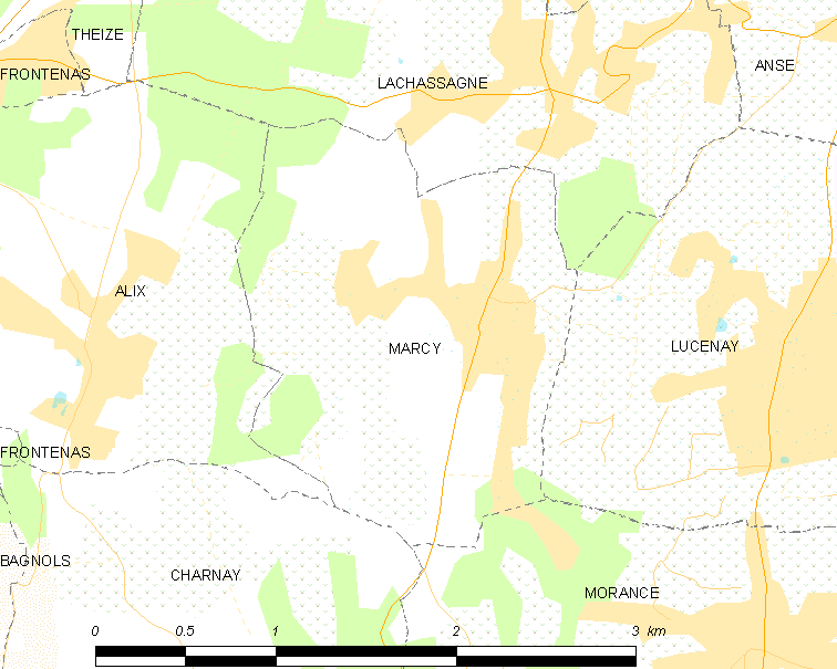 Map of French municipality